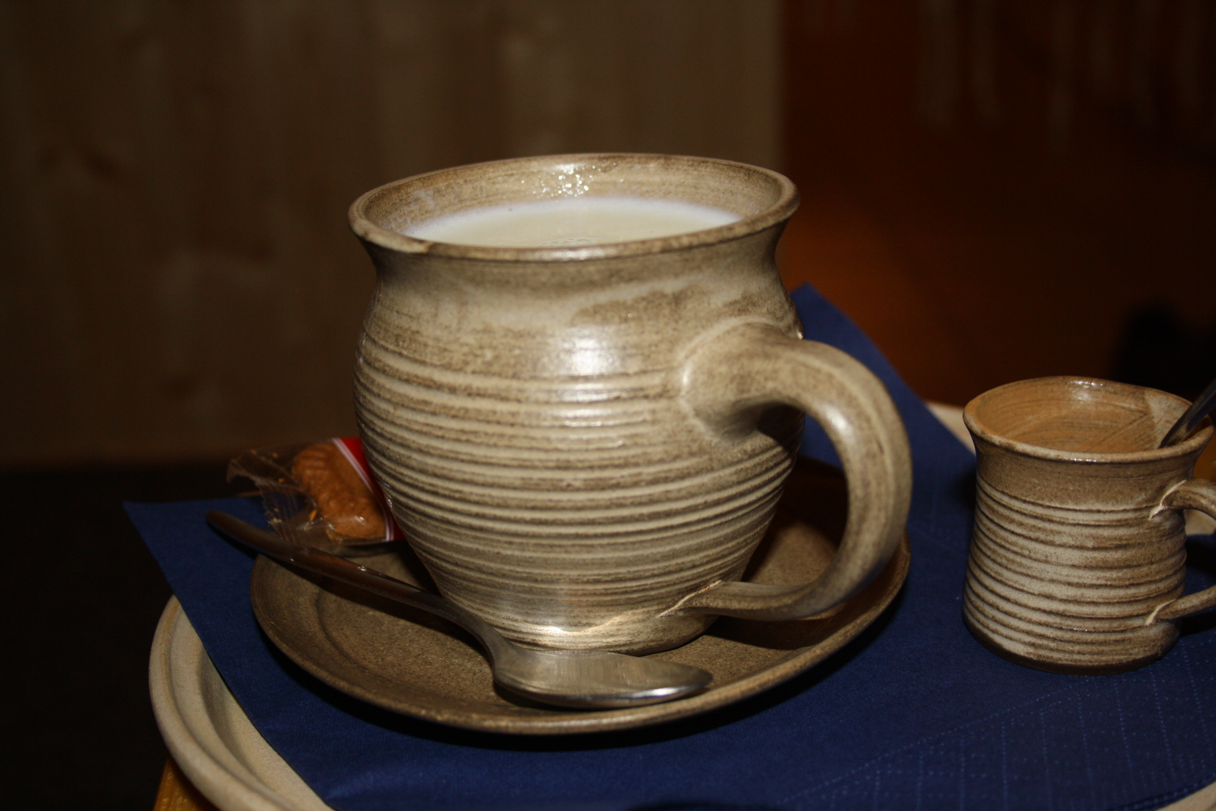 Cup of Sahlep in tearoom in Třebíč, Czech Republic.